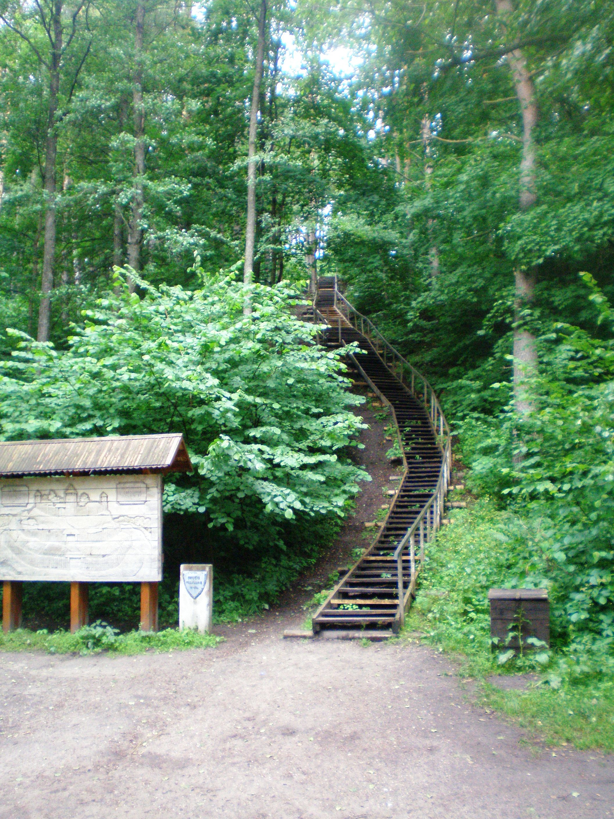 Ginučiai castlehill